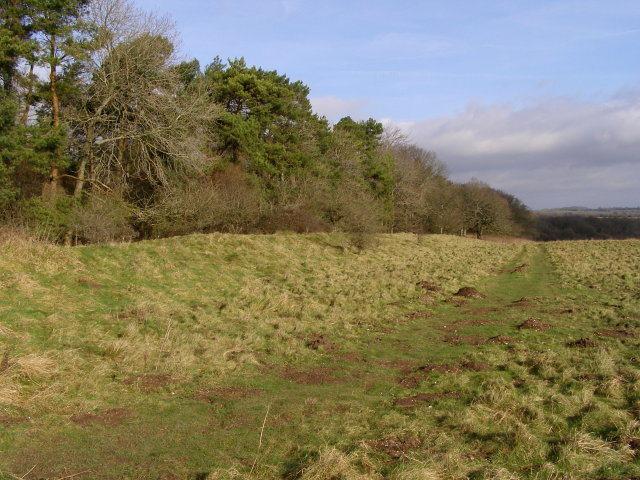 Ackling Dyke Roman Road, Vernditch Chase The bank is the agger of the Ackling Dyke Roman road, running along the south-east side of Vernditch Chase. The top of the embankment marks the Hampshire-Wiltshire county border. This side is part of the Martin Down National Nature Reserve.